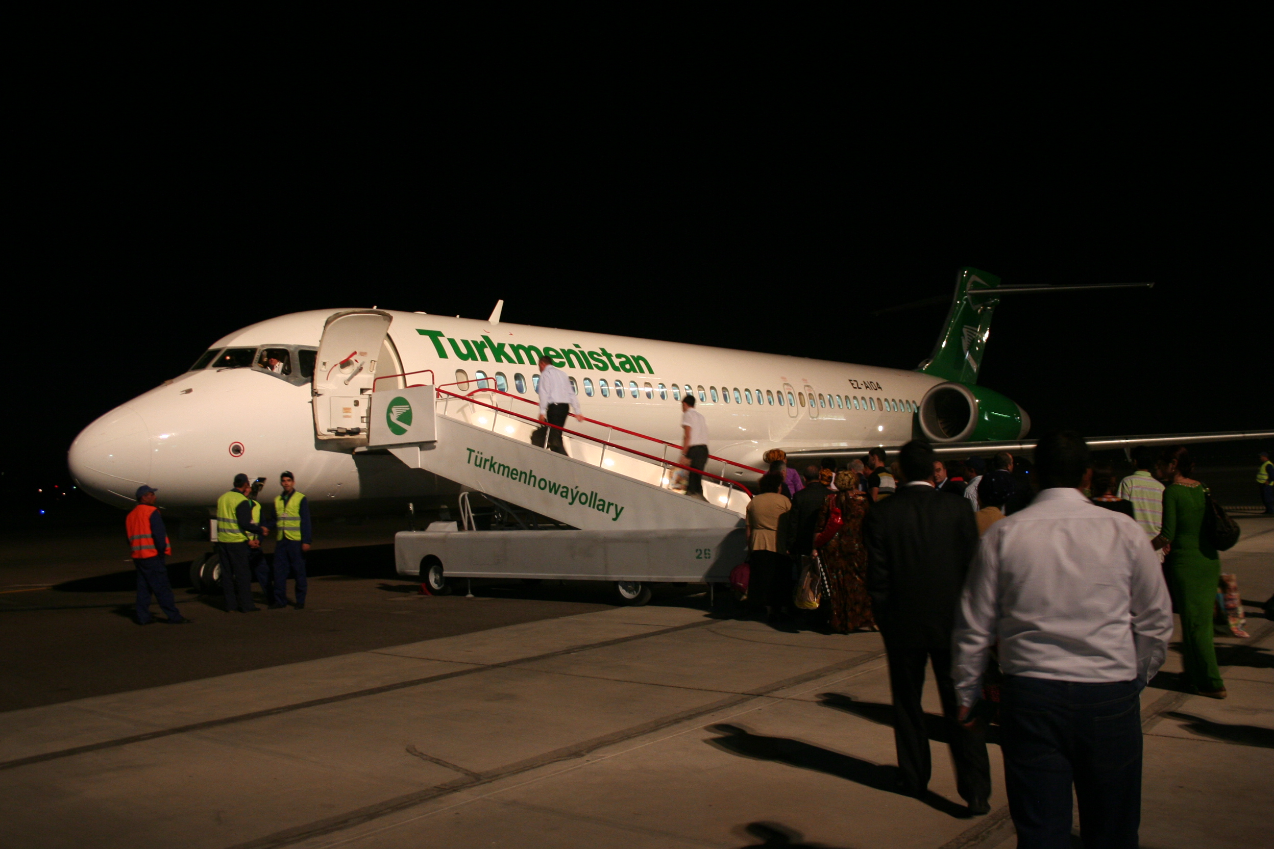 Turkmenistan Airline's brand new Boeing 717 at Ashgabat airport.